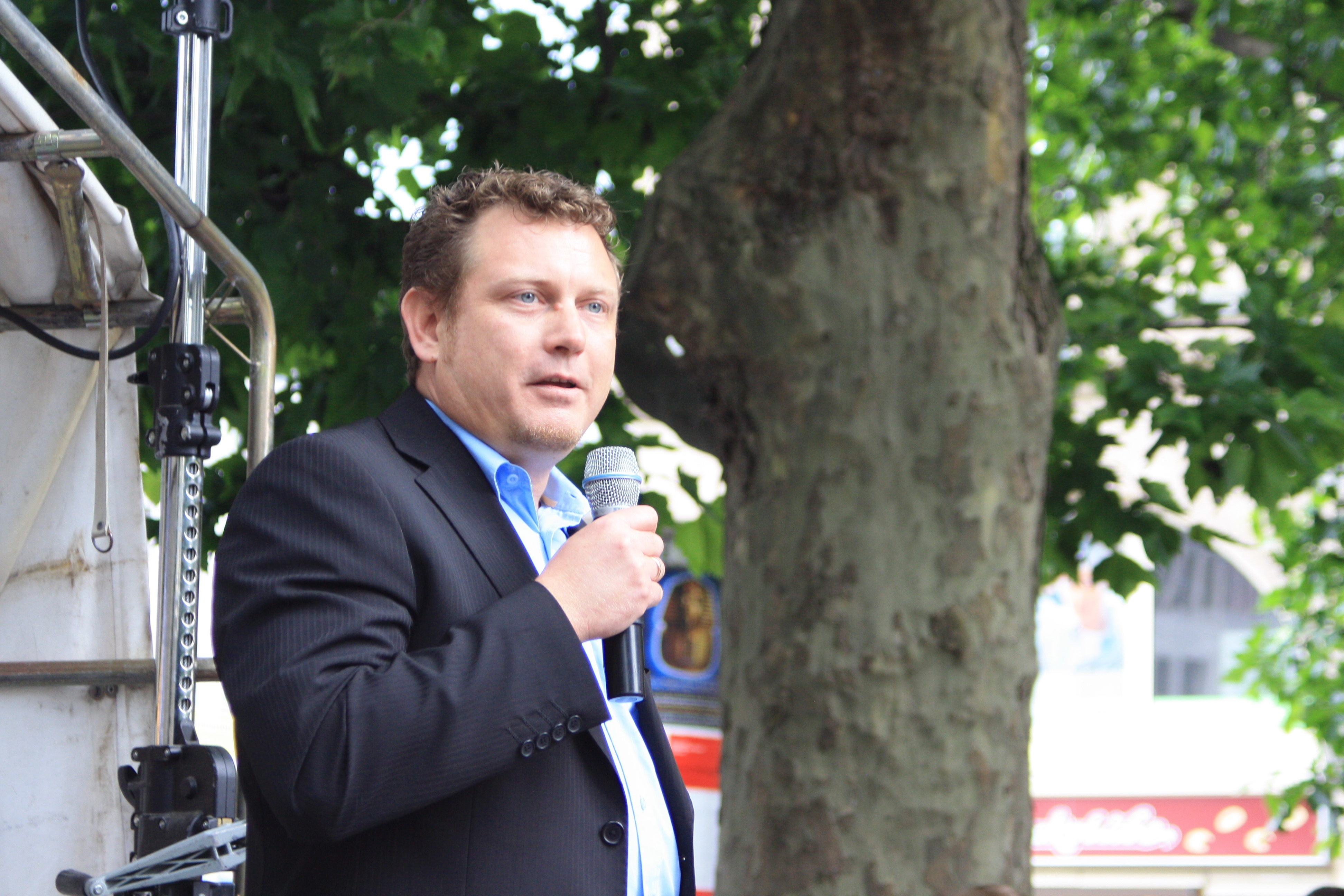 FDP candidate Jimmy Schulz during a party rally in Munich